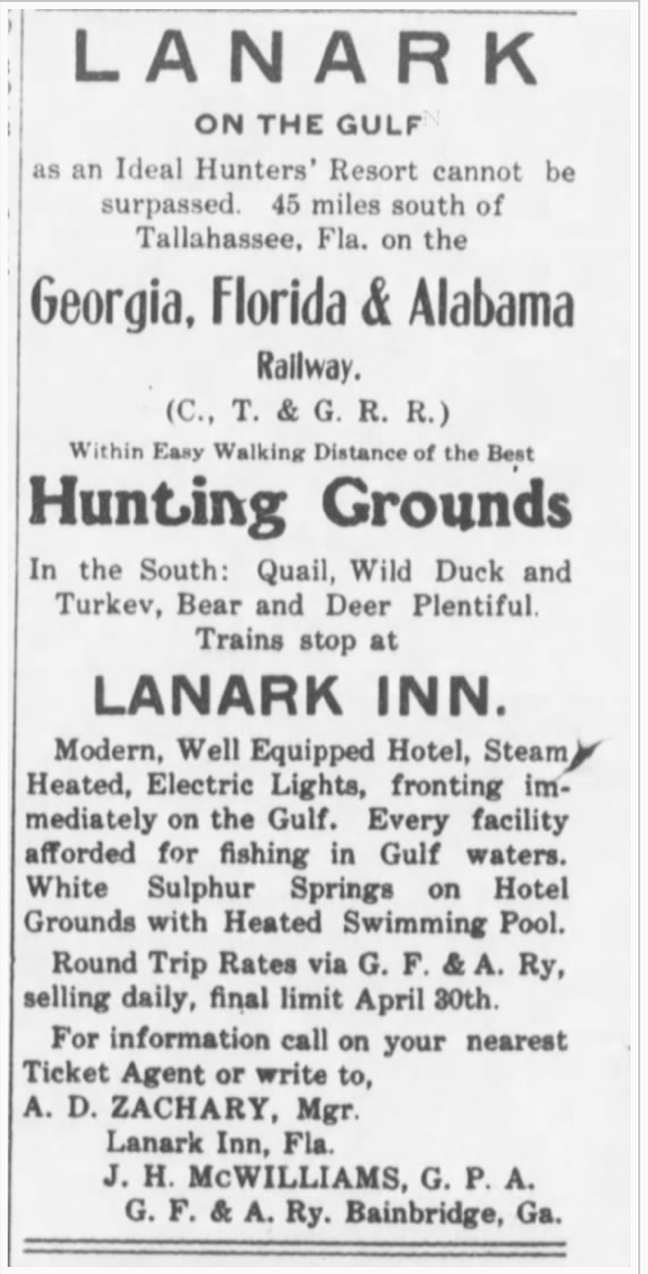 The Lanark in was rebuilt after 1899 hurricane and again after fire